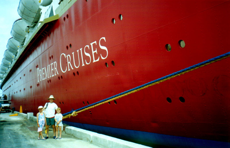 The Big Red Boat of Premier Cruise Line docked in Port Canaveral, Florida.